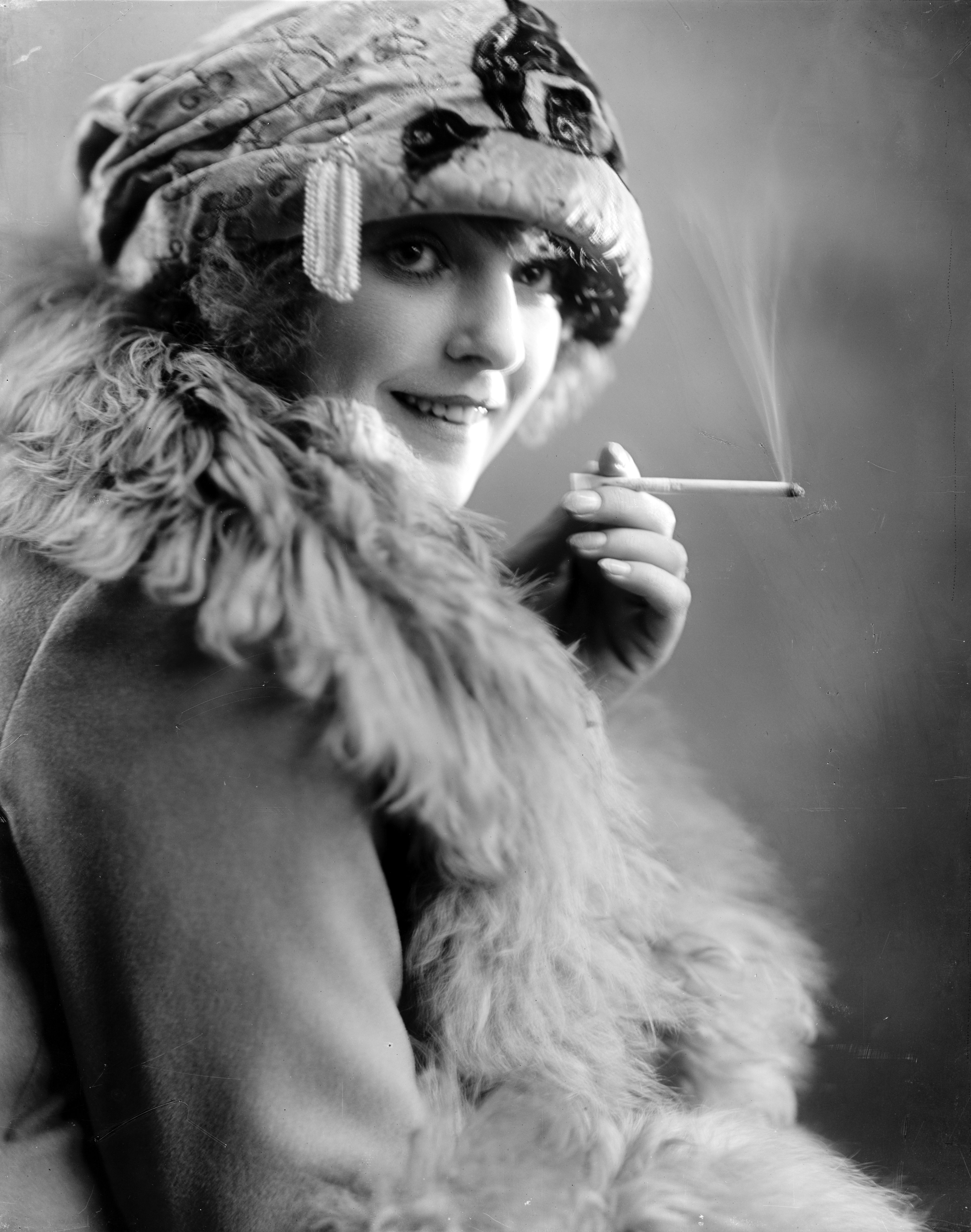 HOLMQUIST, SIGRID, MISS